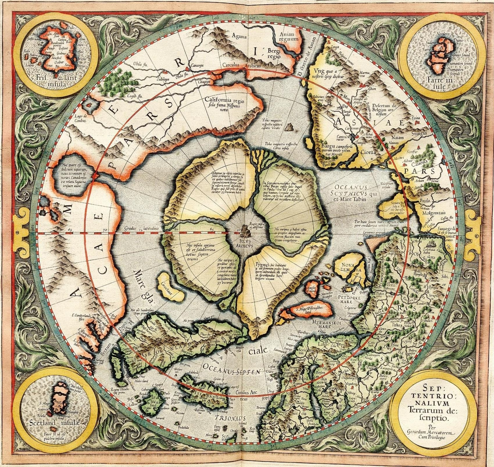 Mercator's 1595 map of the Arctic. Mercator, Gerhard, 1512-1594. "Septentrionalium Terrarum descriptio" [1595]. First state, from his posthumously published atlas, Atlantis pars altera.